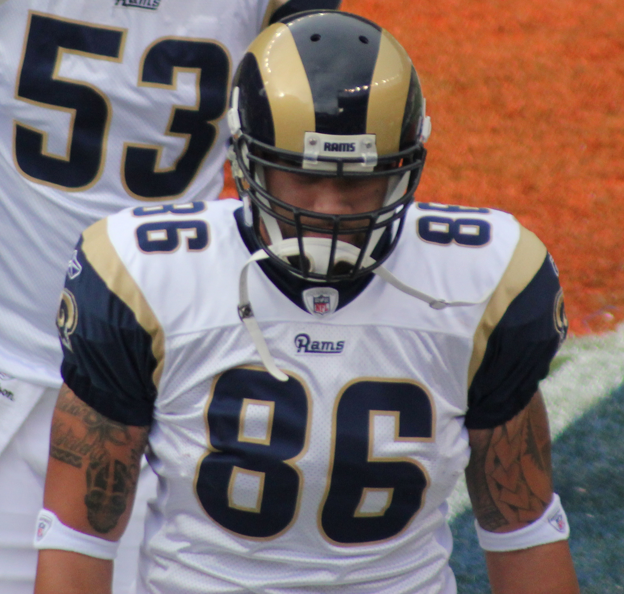 Michael Hoomanawanui, a player on the Saint Louis Rams American football team.